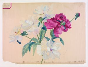 Painting of peonies by Alice Carmen Gouvy for Tiffany Studios